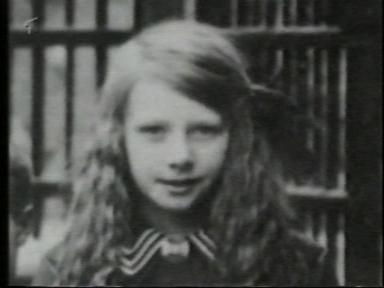 Swedish-American actress Greta Garbo in childhood (1916).